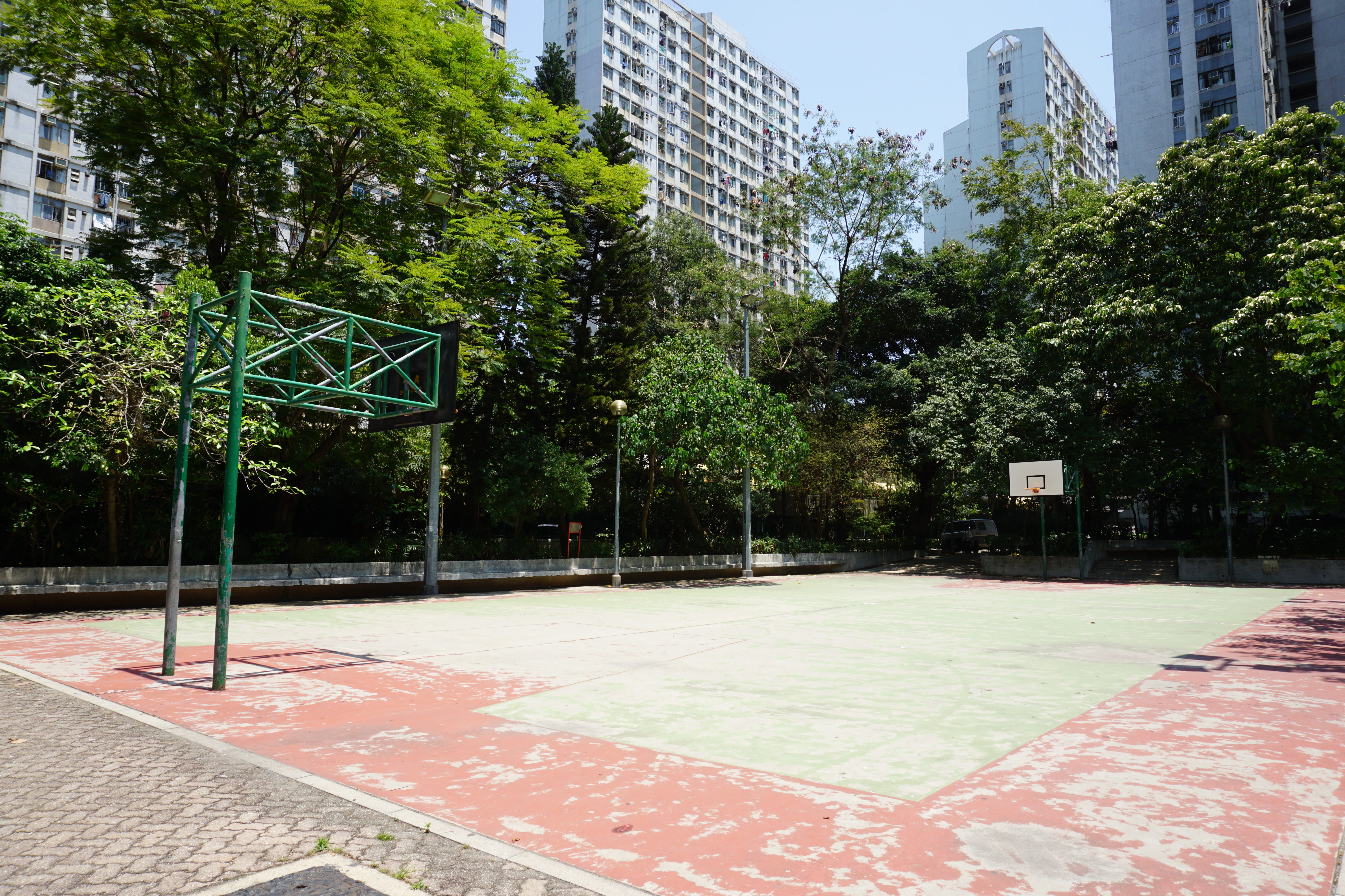 Lei Cheng Uk Estate in Cheung Sha Wan, Hong Kong.